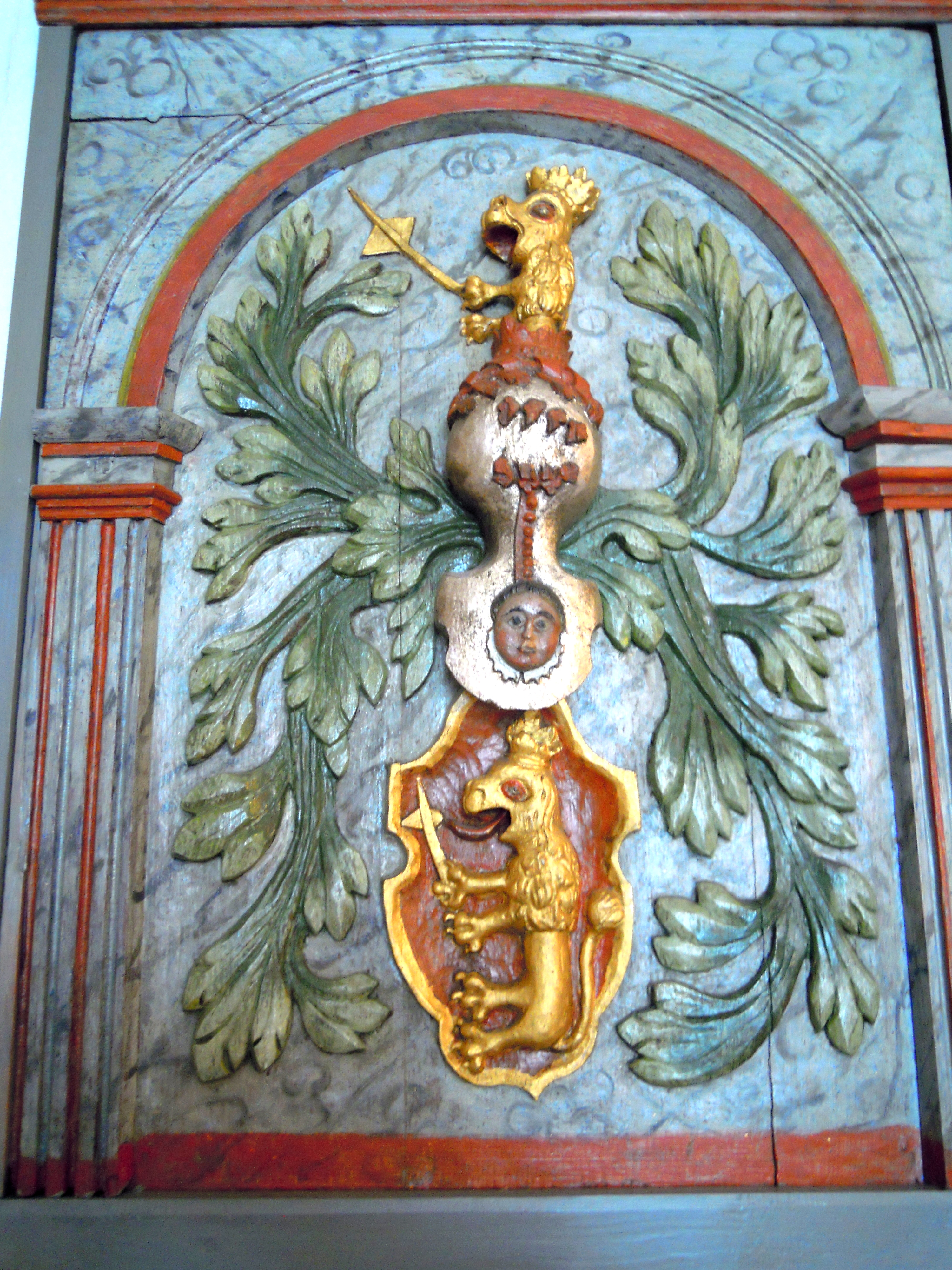 Heraldry - Margrethe Breide in Hvarnes Church, Norway